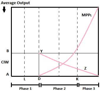 Depicts the 3 different phases of dual economy growth